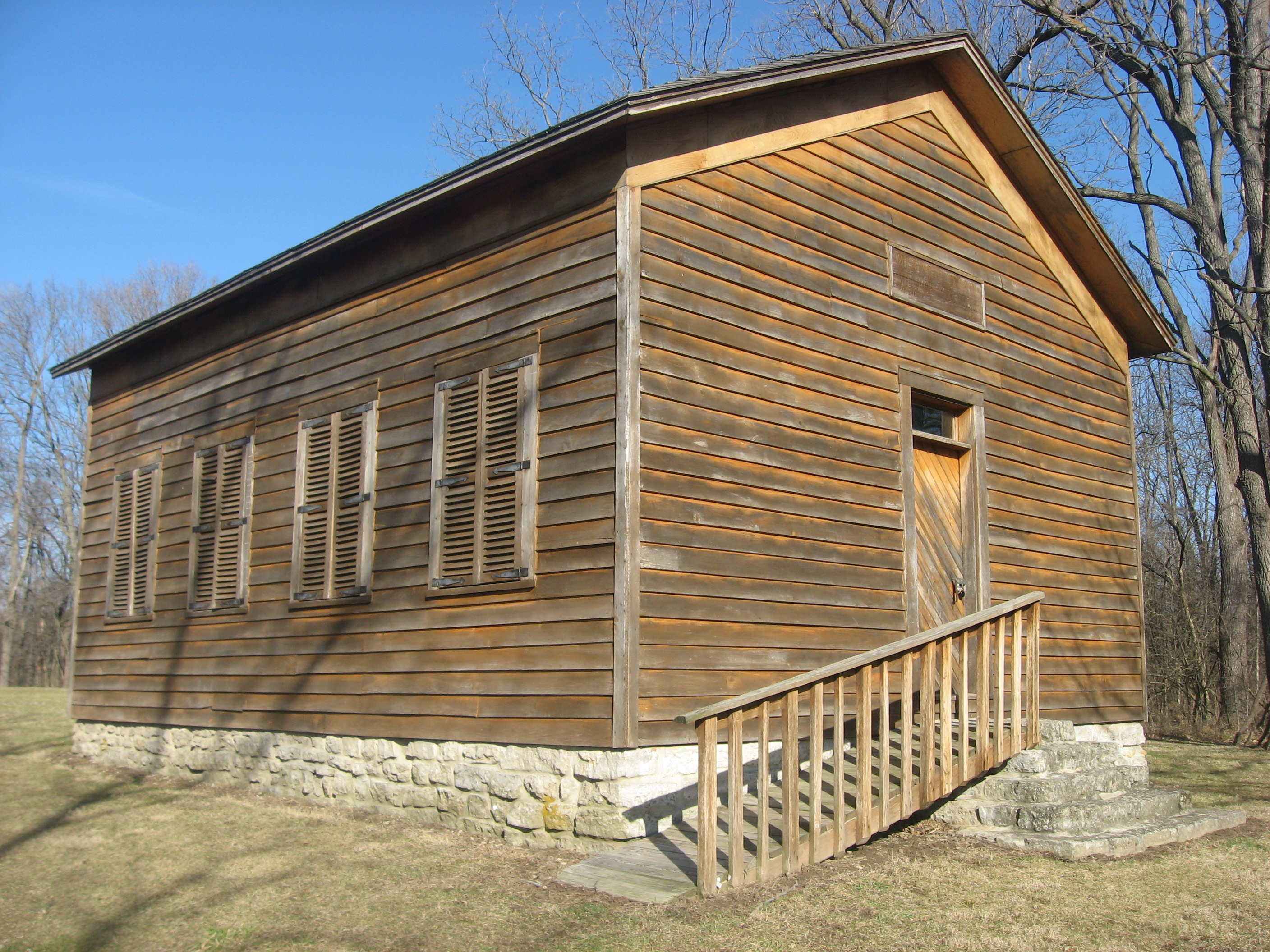 Front and western side of the former Meshingomesia Indian School, located at 3820 W600N northeast of Jalapa in Pleasant Township, Grant County, Indiana, United States. Built in 1870, it is part of the Meshingomesia Cemetery and Indian School Historic District, a historic district that is listed on the National Register of Historic Places. It is also part of the larger, locally-named Mississinewa Historic District.